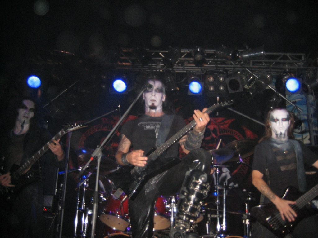 on picture Vesania polish black metal band